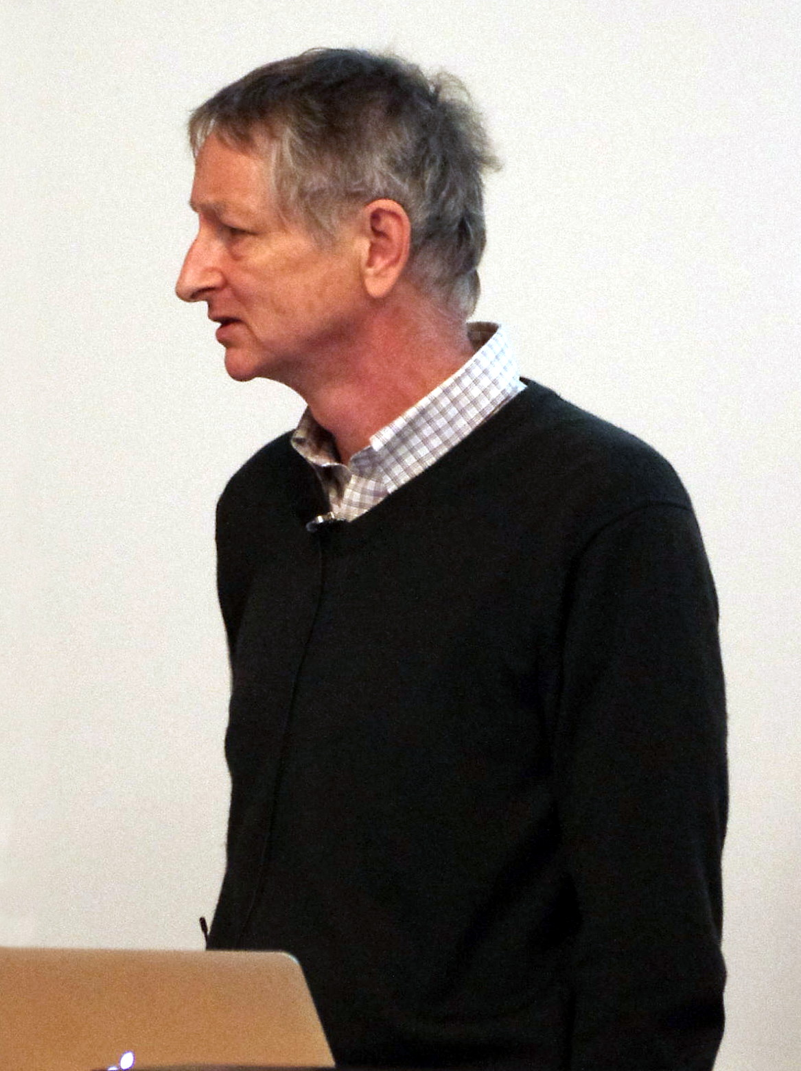 Geoffrey Hinton giving a lecture about deep neural networks at the University of British Columbia